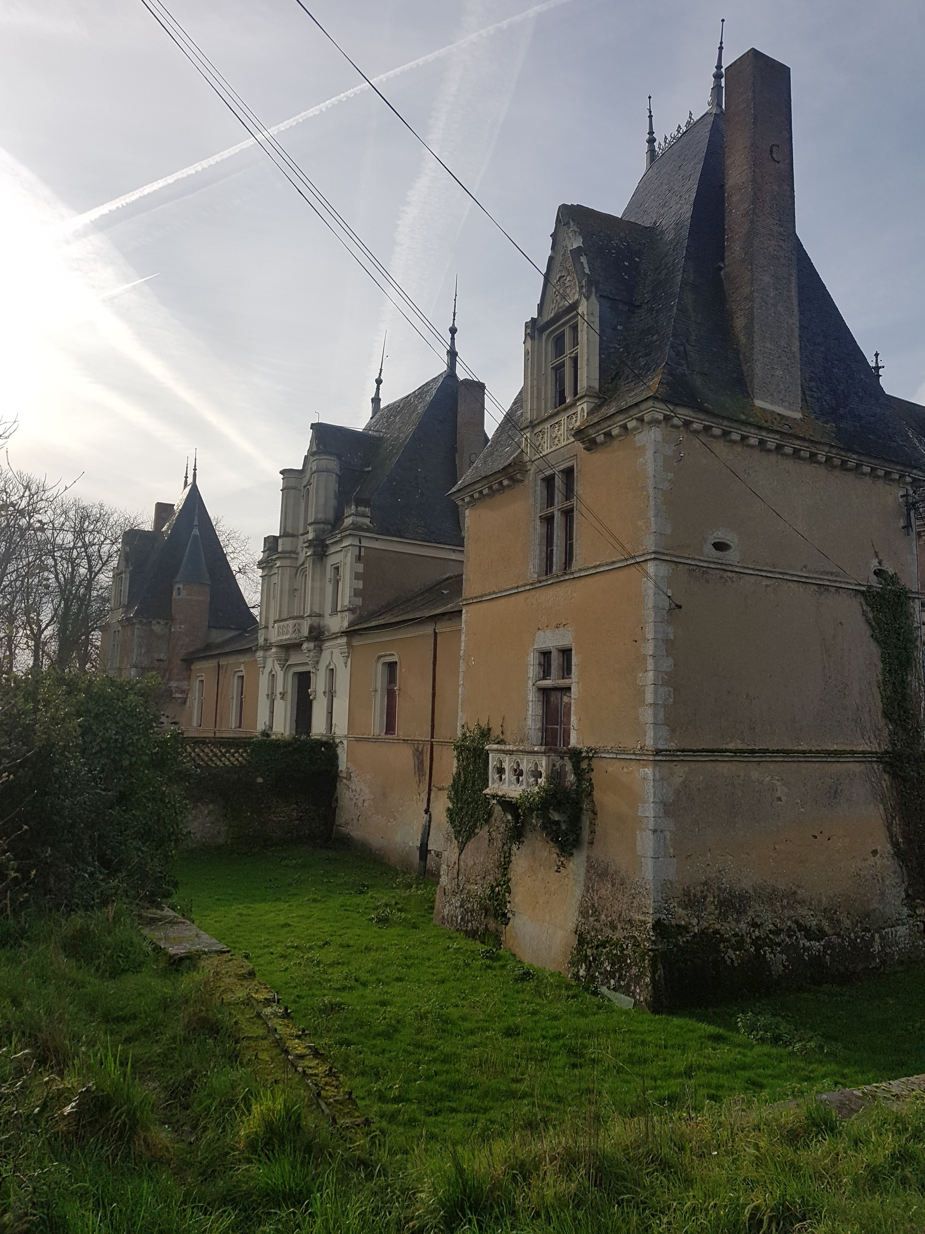 château du Pineau